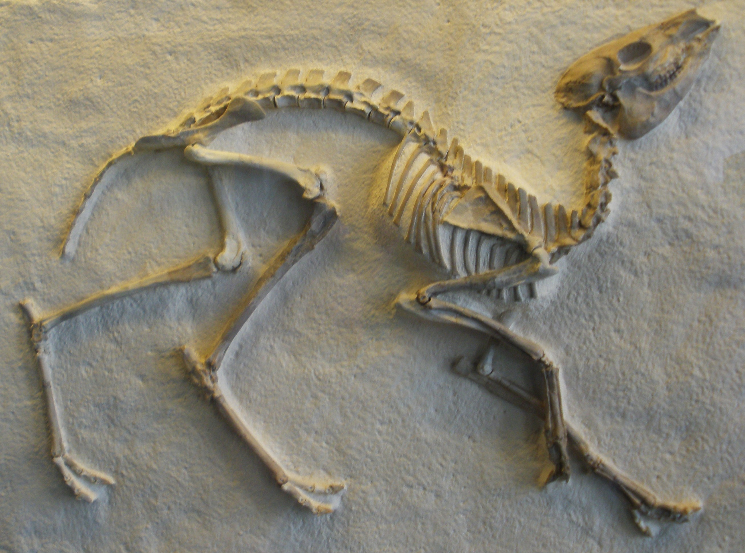 fossil leptomeryx